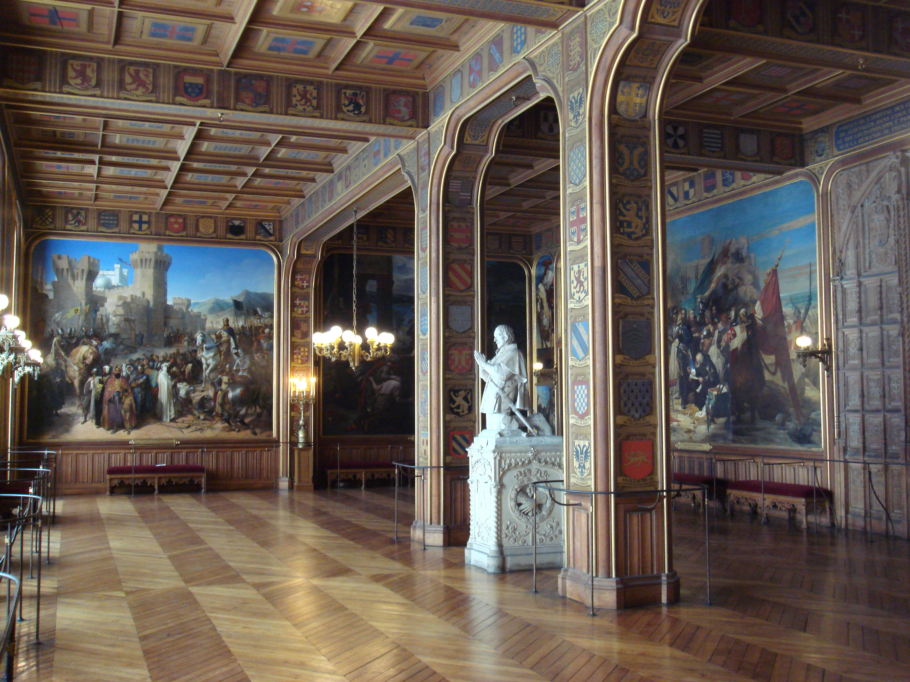 Salle des Croisades, Musée national du Château de Versailles et des Trianons, Versailles, France